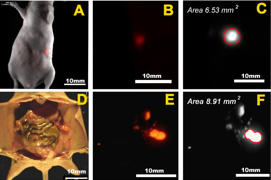 Fluorescence imaging of orthotopic pancreatic tumor implants and measurement of tumor size. This mouse was imaged two weeks after orthotopic injection of a human pancreatic cell line (XPA-1) stably expressing red fluorescent protein (RFP). A-C. Evaluation of tumor size by whole body imaging of an anesthetized mouse. A. Bright field and color fluorescence images were overlaid to show the coronal image of the fluorescent tumor. B. Enlarged whole body fluorescence image of tumor. This image was obtained using a color (non-quantitative) fluorescence imaging camera. C. Monochrome (quantitative) fluorescence image of the tumor shown in panels A and B. This coronal image was analyzed using ImageJ software to determine the cross-sectional size of the tumor in millimeters squared (mm2). D-F. Evaluation of tumor size at necropsy. D. Overlay of bright field and color fluorescence images showing the fluorescent tumor implant at necropsy. E. Enlarged color fluorescence-only image of the tumor as shown in D. F. As for panel C above, the cross-sectional size of the tumor shown in panels D and E was determined using ImageJ software.